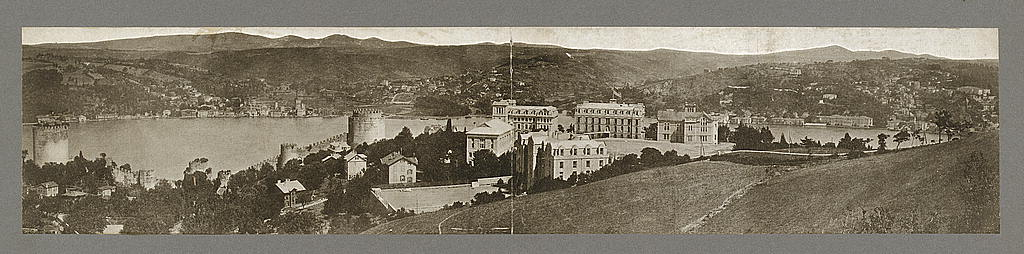 Robert College (Boğaziçi University) (between 1880 and 1910)